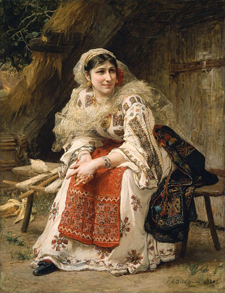 Armenian Woman. 152.72 x 117.16 cm. Oil on canvas. Held at Museum of Fine Arts in Boston.